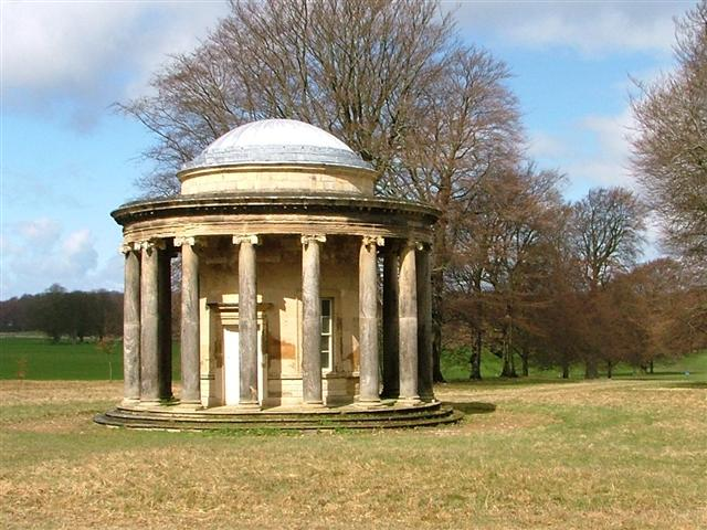 The Round House, Bramham Park